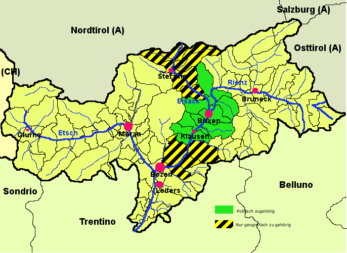 Location of Eisacktal (Italy) on a map of South Tyrol political geographically